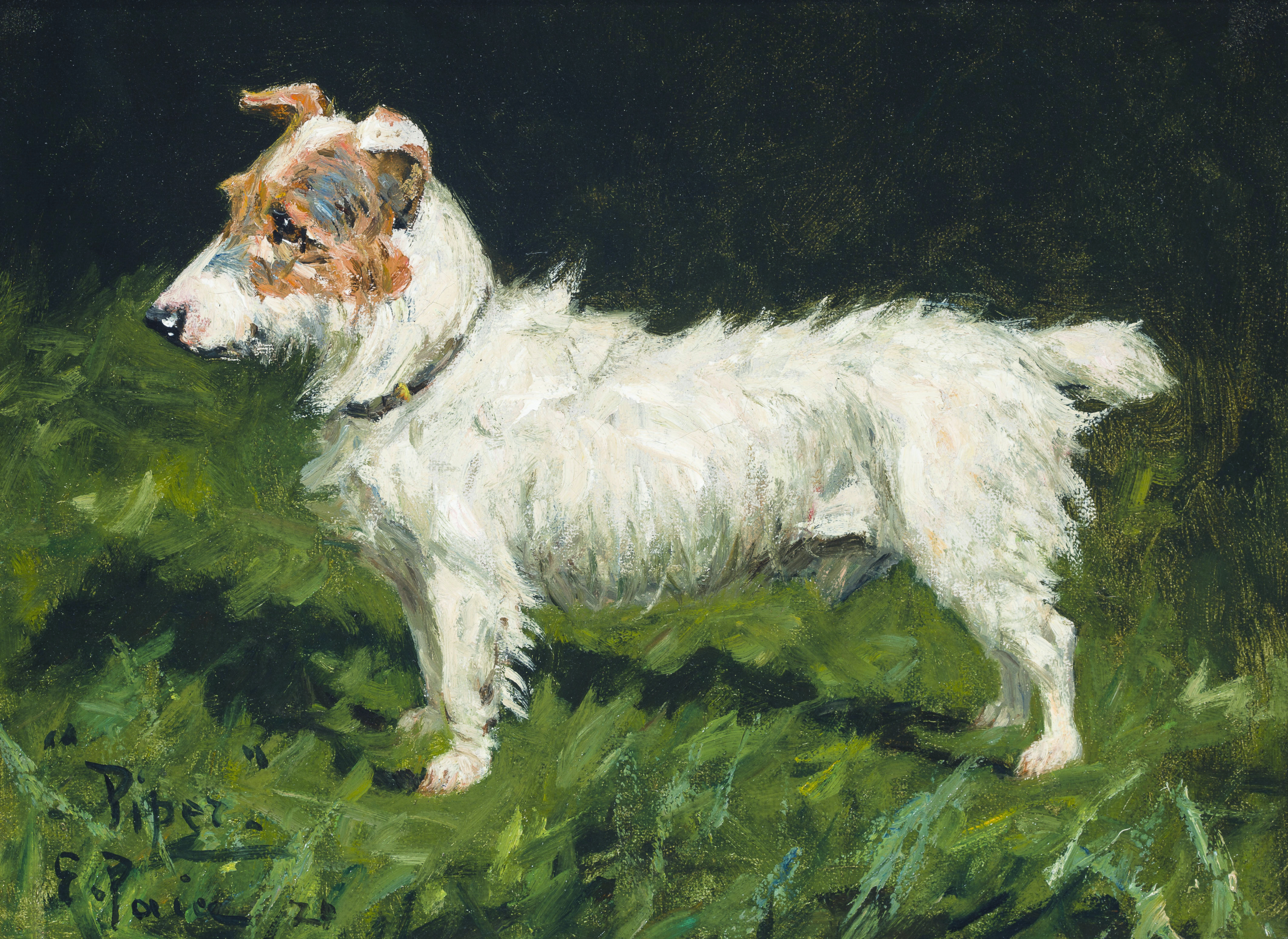 Piper, a Jack Russell Terrier oil on canvas 22.8 x 30.4 cm signed b.l.: Piper. / G.Paice 20